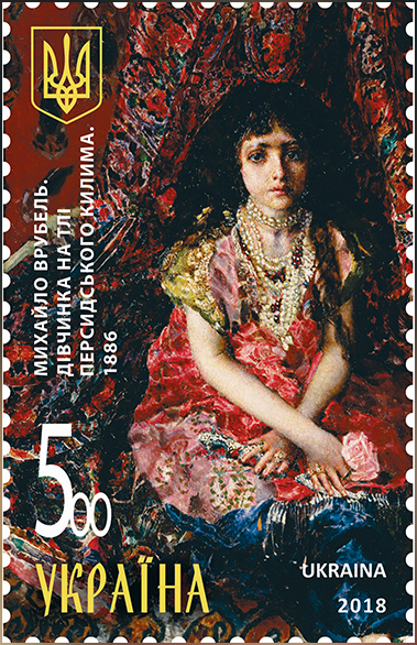 2018 Ukraine Stamp